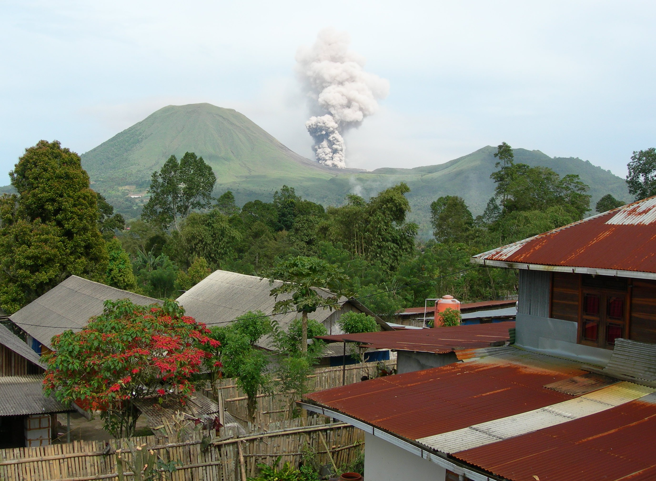 Explosion in the Tompaluan crater of the dual volcano Lokon-Empung, 10 September 2013, Sulawesi Utara, Indonesia. Photographed in Tomohon at ca. 5 km distance.